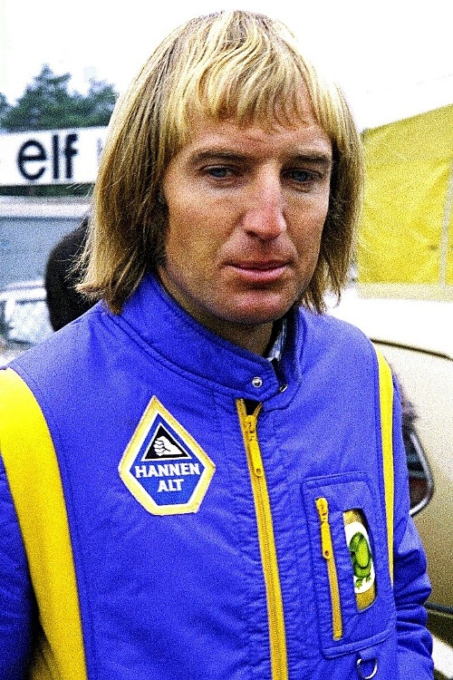 German racing driver Clemens Schickentanz pictured in the summer of 1975 at the Circuit Zolder in Belgium.